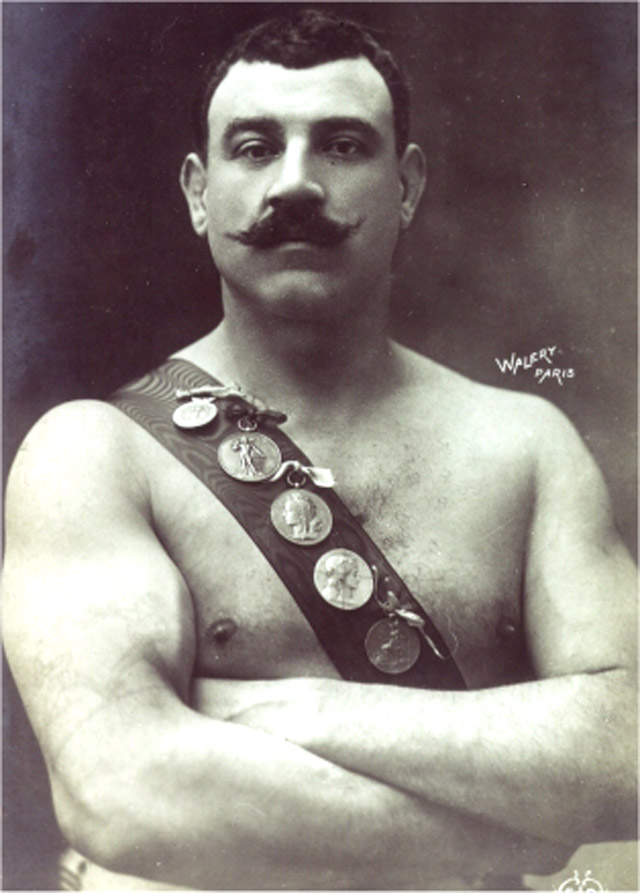 Paul Pons World Champion and one of the greatest wrestlers of the early era